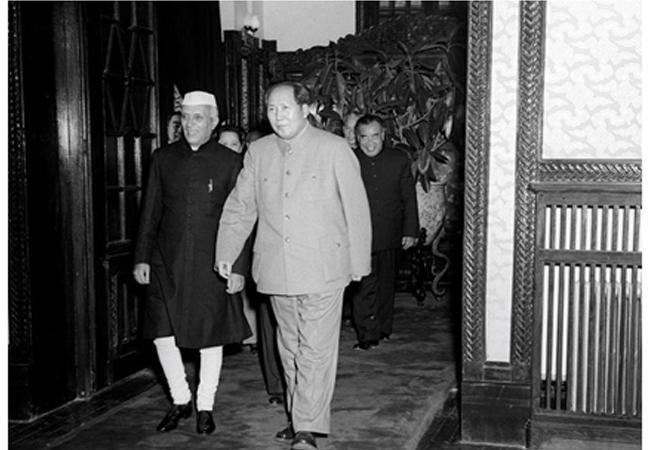 Prime Minister Nehru with the Chairman of the People’s Republic of China Mao Zedong at Beijing during the former's official visit.